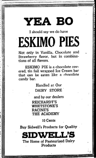 Image from is in the public domain, as it is dated Novembewr 3, 1921.